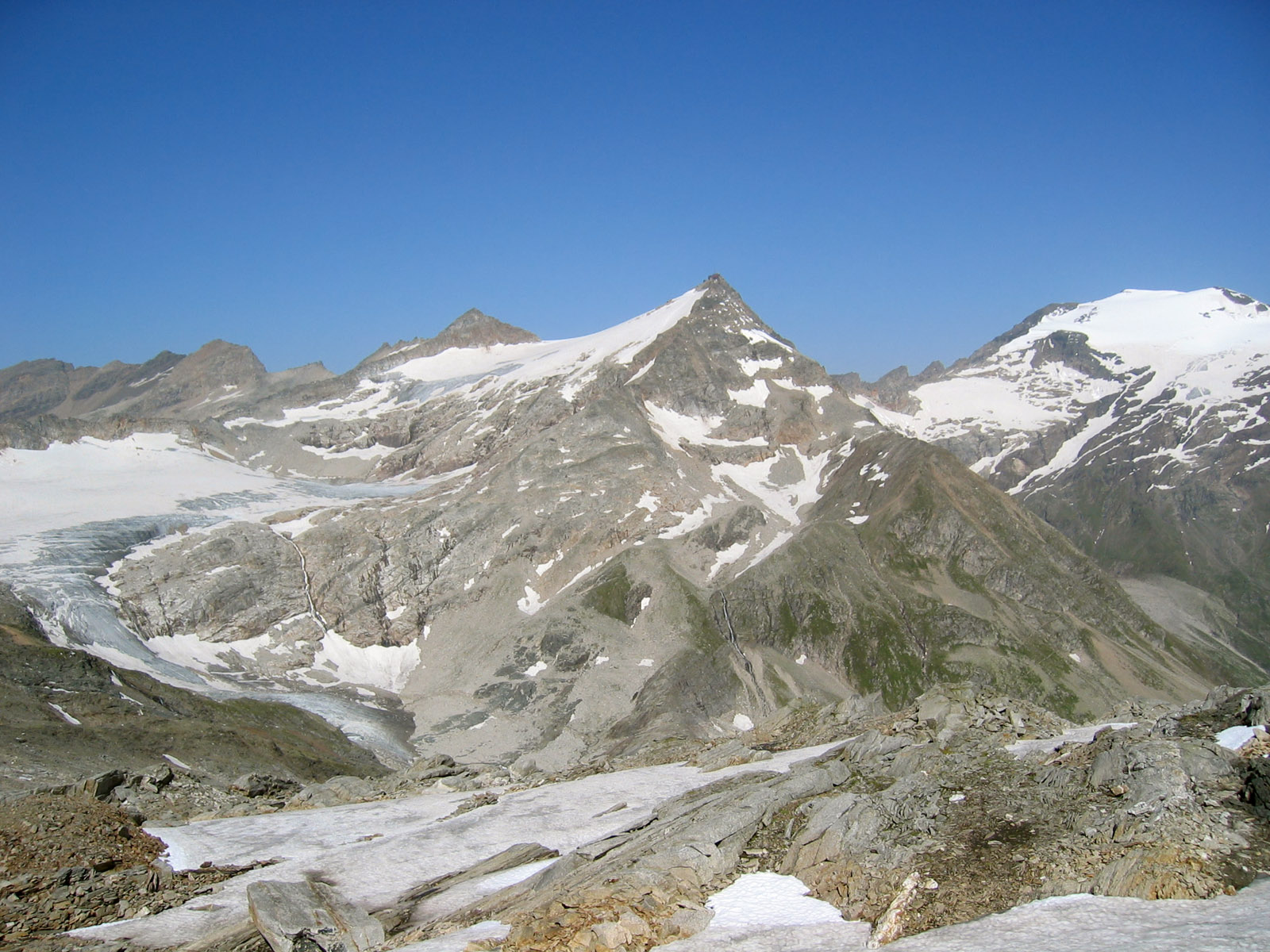 Goldbergspitze (3072 m, left), Hoher Sonnblick and Zittelhaus (3106 m, in the middle) and Hocharn (3254 m, quite right in the backgound), seen from the western slopes of Schareck